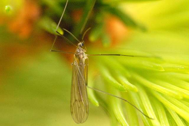 Ula sylvatica from Commanster, Belgian High Ardennes .